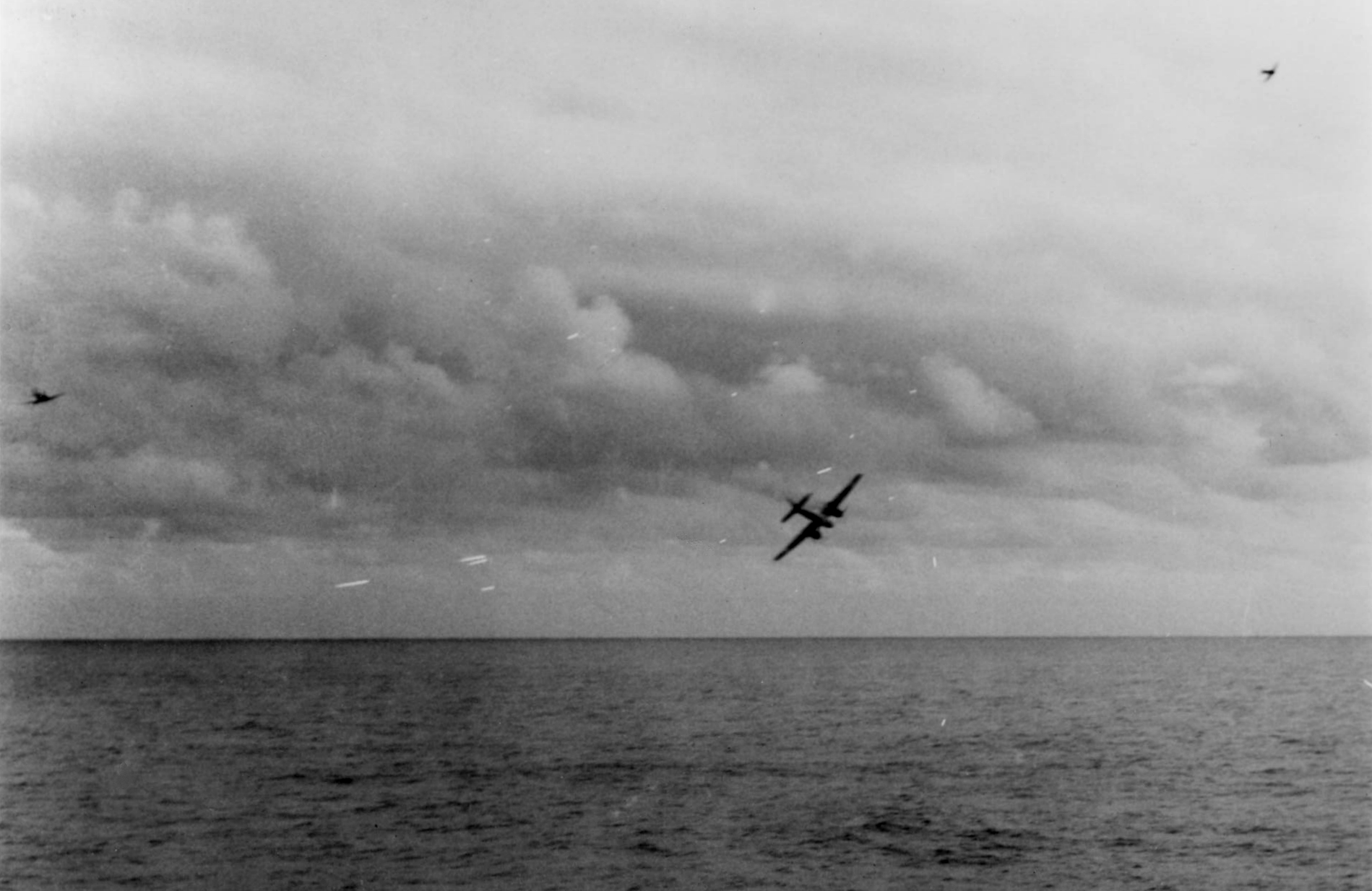 A Japanese Yokosuka P1Y1 "Frances" under fire from U.S. Navy ships' antiaircraft batteries as it turns away with engines smoking after an attack by Vought F4U Corsairs. Note the flak tracers.